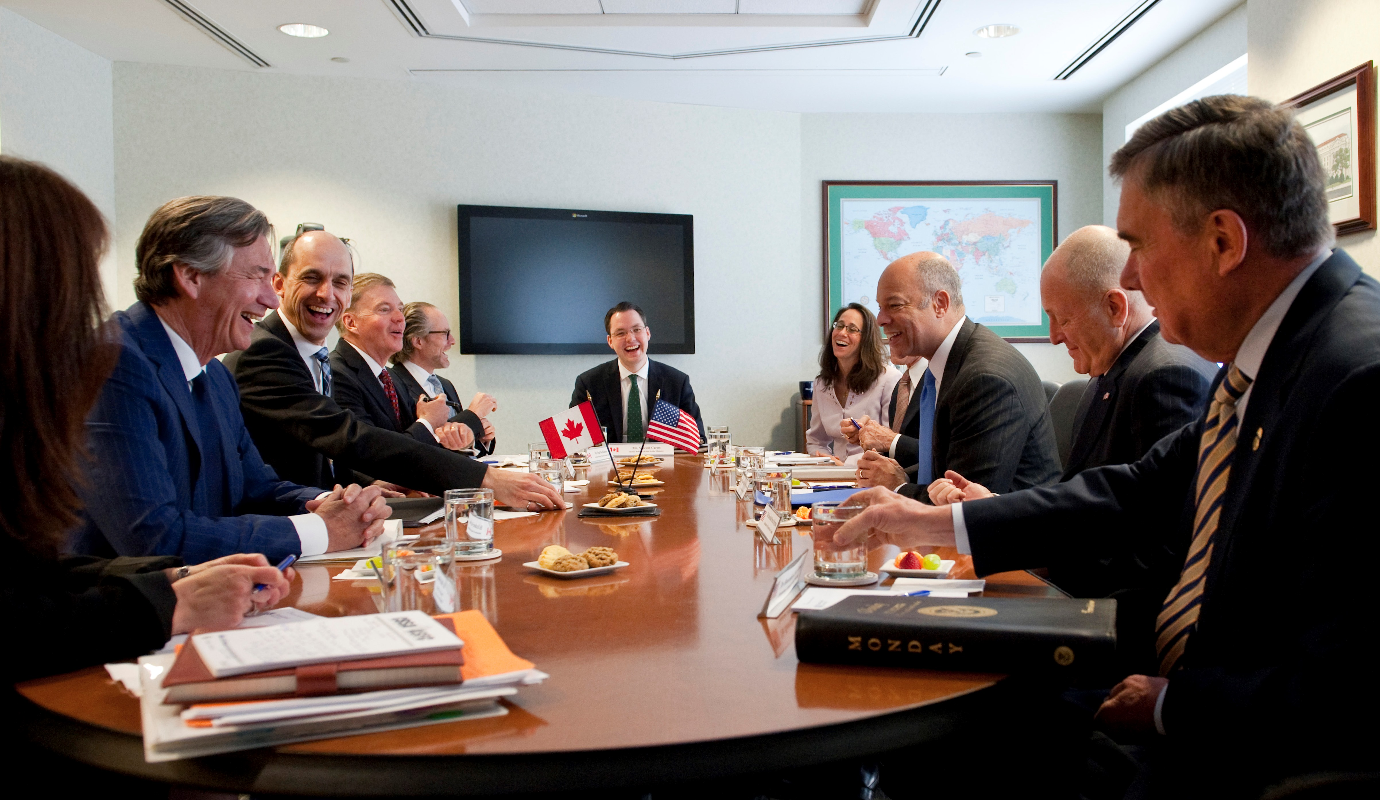 U.S. and Canada Sign Preclearance Agreement WASHINGTON - Consistent with the initiatives outlined in the 2011 Beyond the Border Action Plan, Secretary of Homeland Security Jeh Johnson and Canadian Minister of Public Safety and Emergency Preparedness Steven Blaney signed the Agreement on Land, Rail, Marine, and Air Transport Preclearance Between the Government of the United States of America and the Government of Canada. This new agreement reaffirms the United States and Canada’s commitment to enhancing security while facilitating lawful travel and trade, and supersedes the existing U.S.-Canada Air Preclearance agreement signed in 2001. Official DHS photo by Barry Bahler.